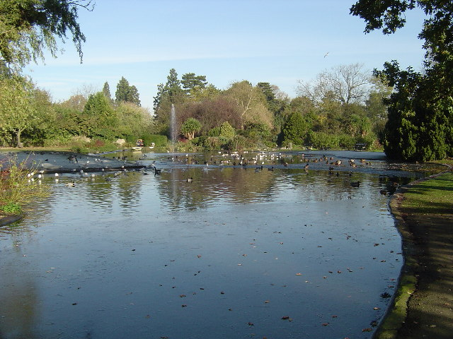 Pinner Memorial Park: The Pond